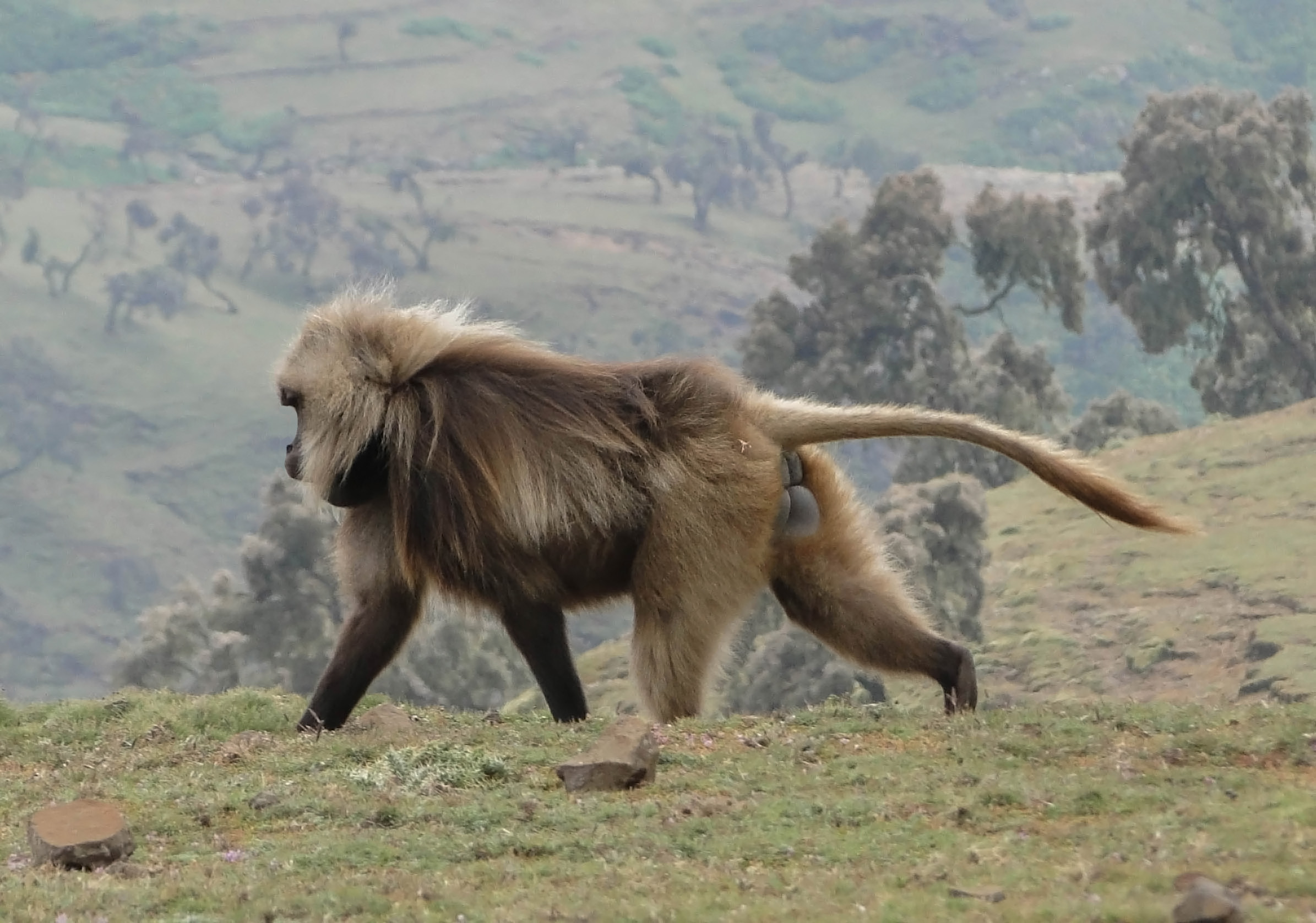 A male gelada (Theropithecus gelada) in the Simien Mountains National Park, Ethiopia